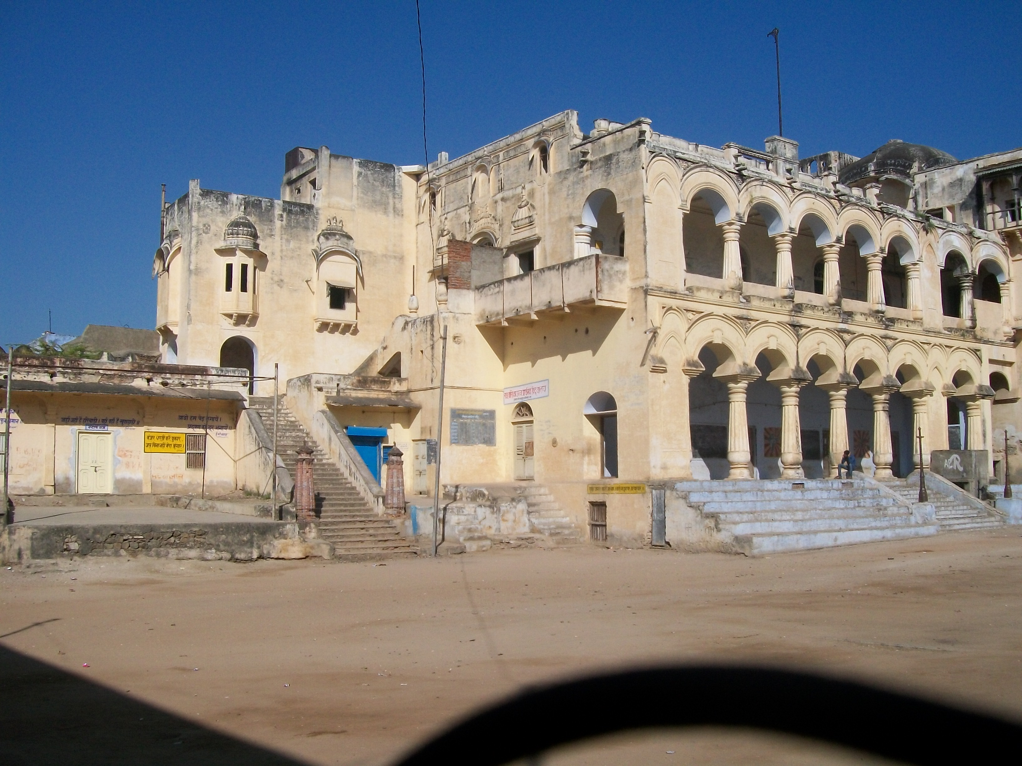 Shahpura Mahal Situted At Middele Of Shahpura